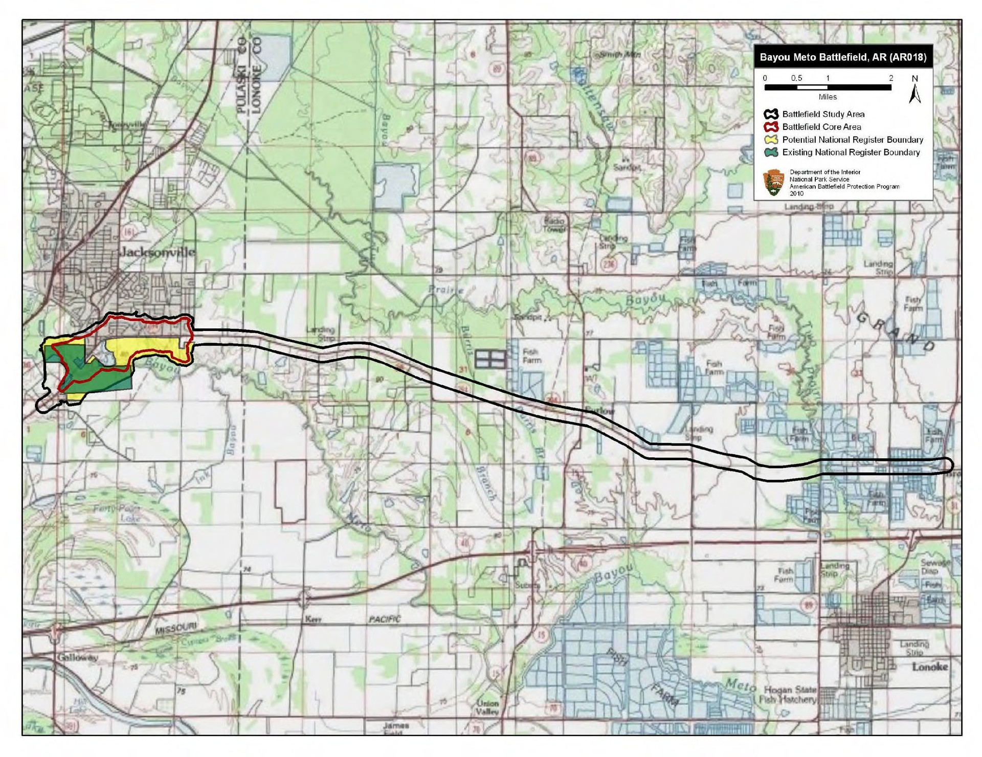 Map of battlefield core and study areas. The Study Area follows the historic Telegraph Road (now Military Road) from Brownsville to Bayou Meto. Brownsville was the base of operations for the Federal cavalry under Davidson. The Study Area widens around the ridges east of the Bayou Meto crossing to include the location of the intense skirmishing in this area. The Study Area expands around Bayou Meto to represent the position of Federal and Confederate skirmish lines. The Core Area begins were the Federal forces deployed the entire 1st Cavalry Division into line of battle to drive off the Confederate skirmishers in the hills. It also includes Confederate artillery and infantry positions across Bayou Meto.